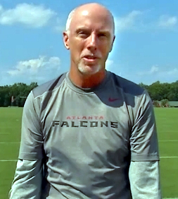 Rich McKay doing the Ice Bucket Challenge, 2014